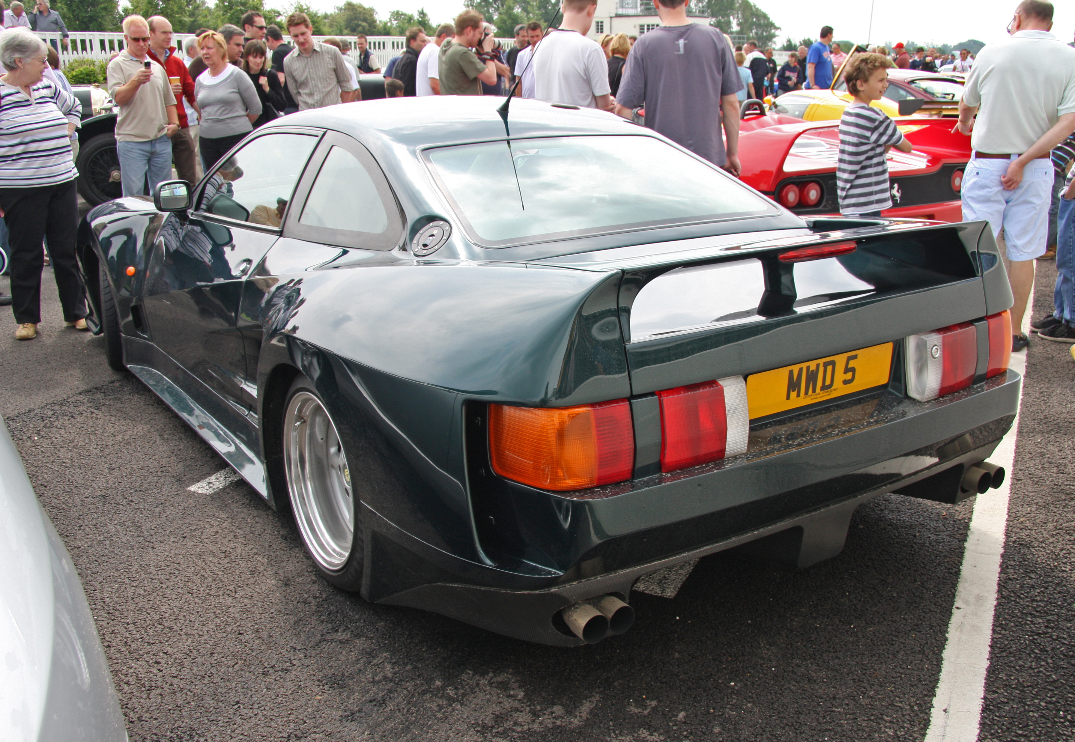 Green Lister Storm coupé at the Goodwood Breakfast Club (June 2008).